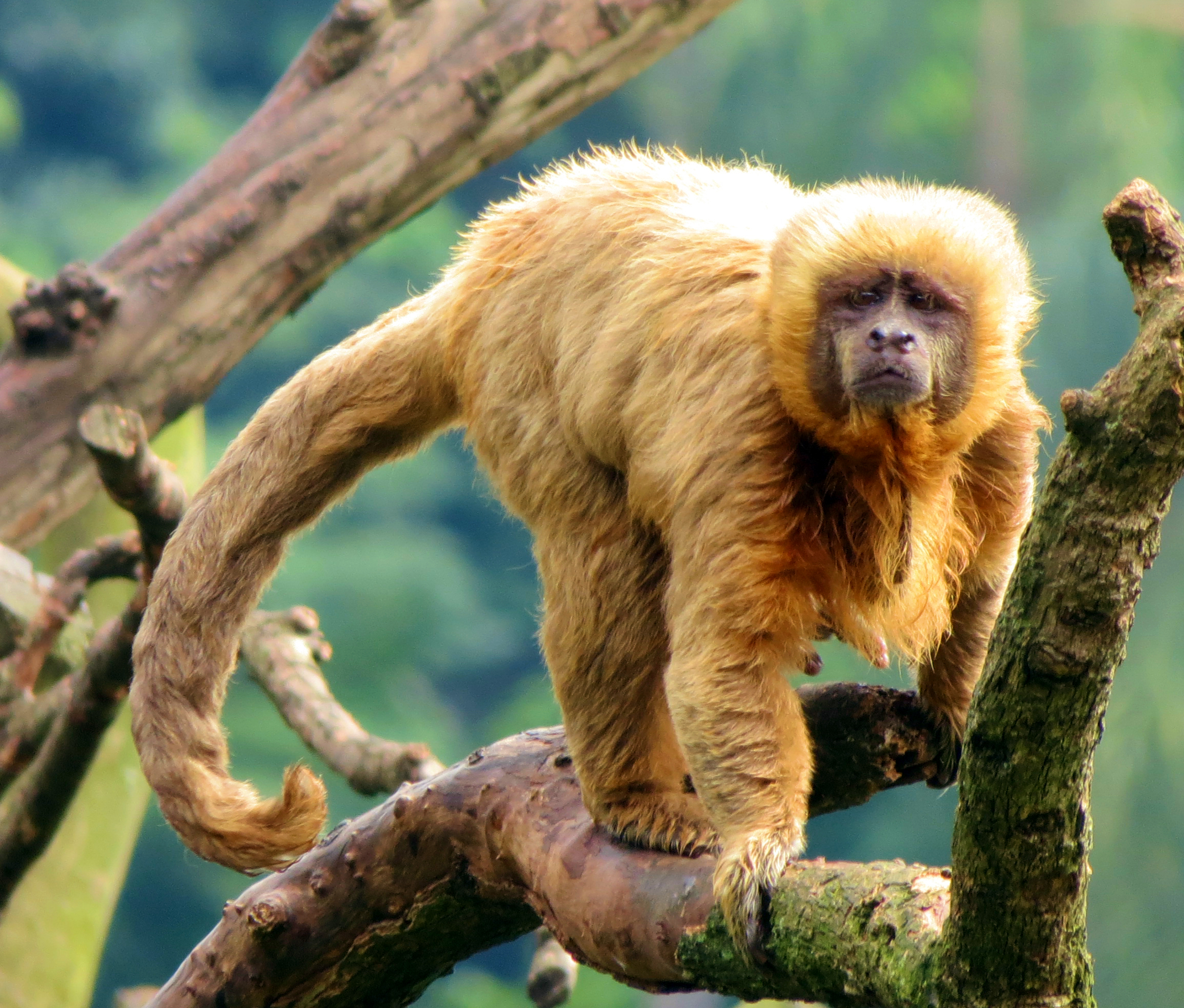 Blond capuchin (``Sapajus flavius``) at Sao Paulo Zoo